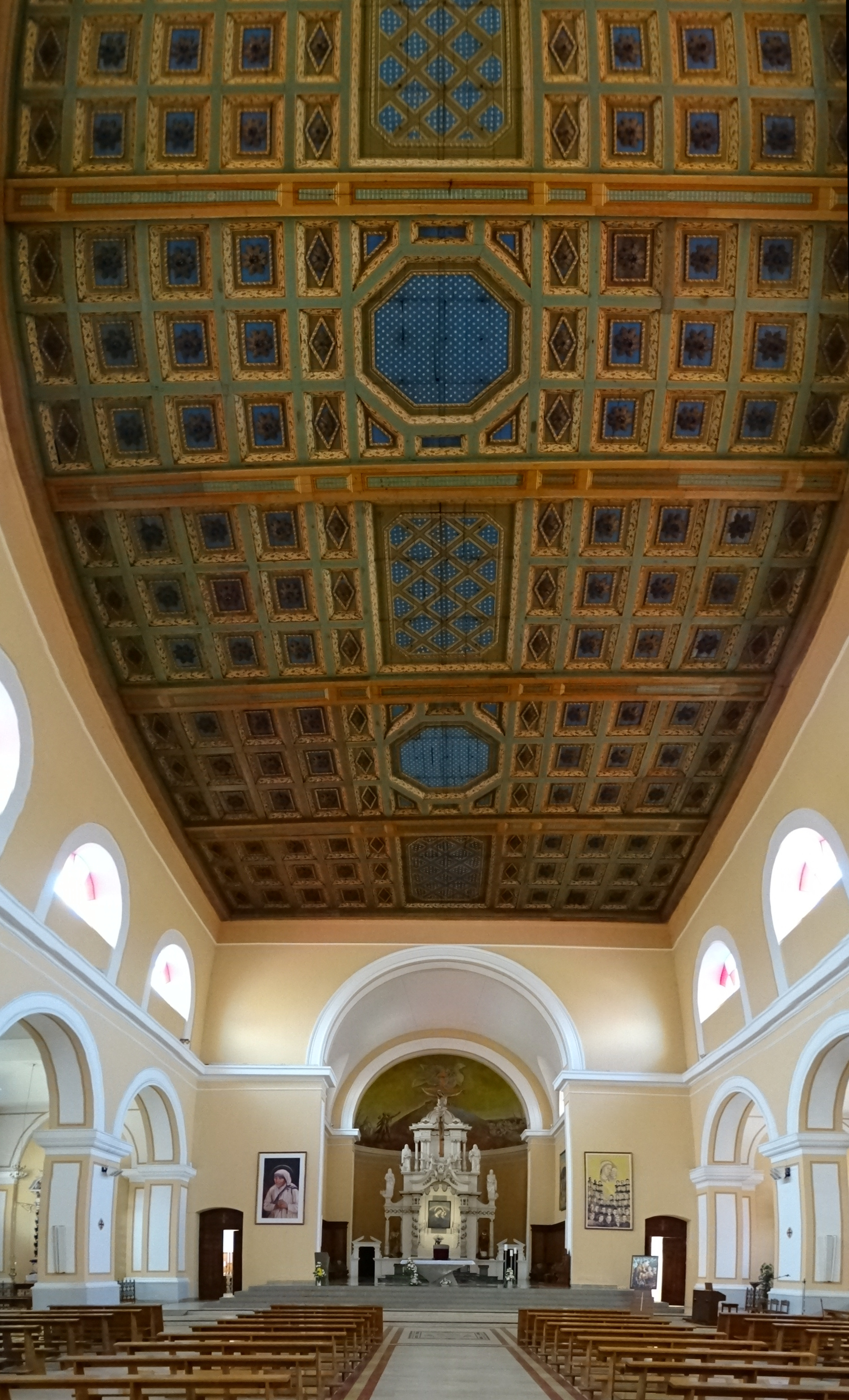 Photos by Adam Jones